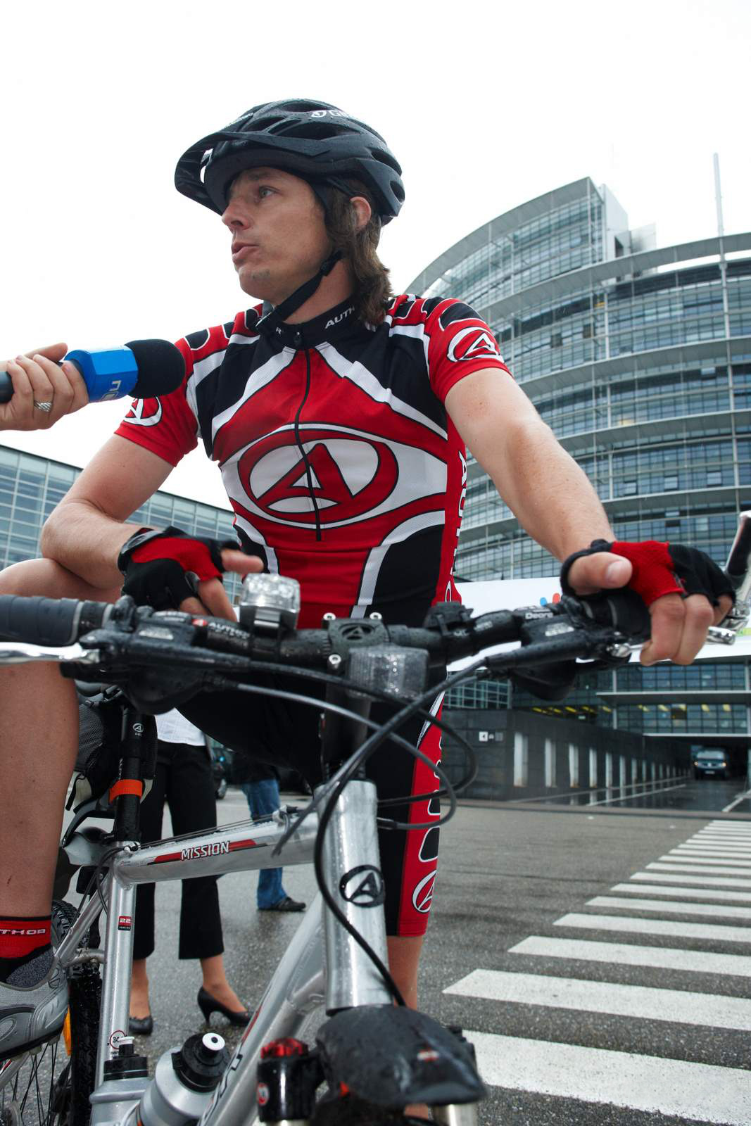 Edvard Kožušník upon arrival at the first session of the European Parliament.